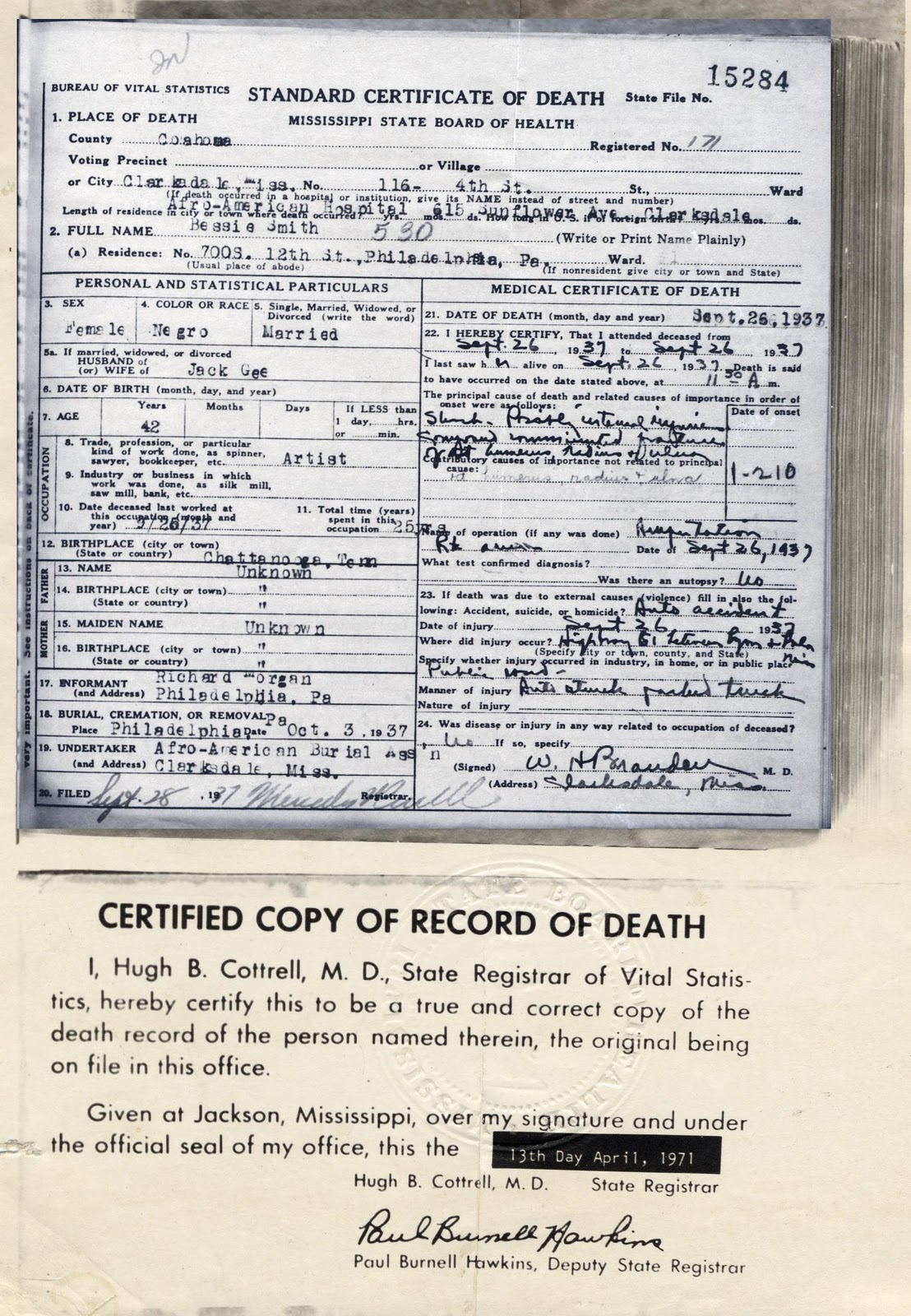 Bessie Smith official death certificate issued by state of Mississippi